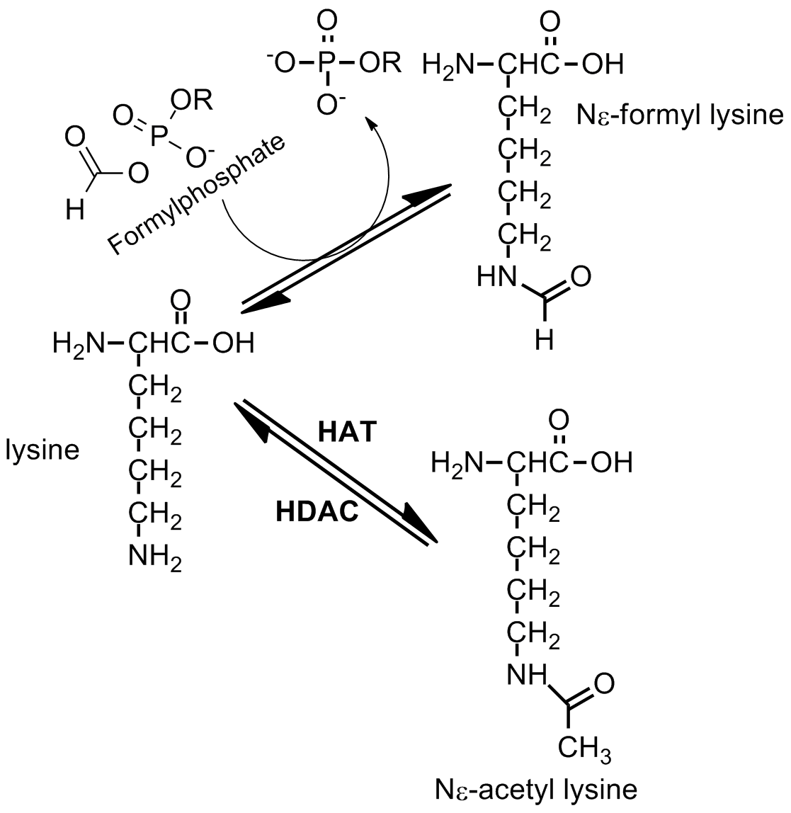 Formation n-formyl lysine and acetyl-lysine